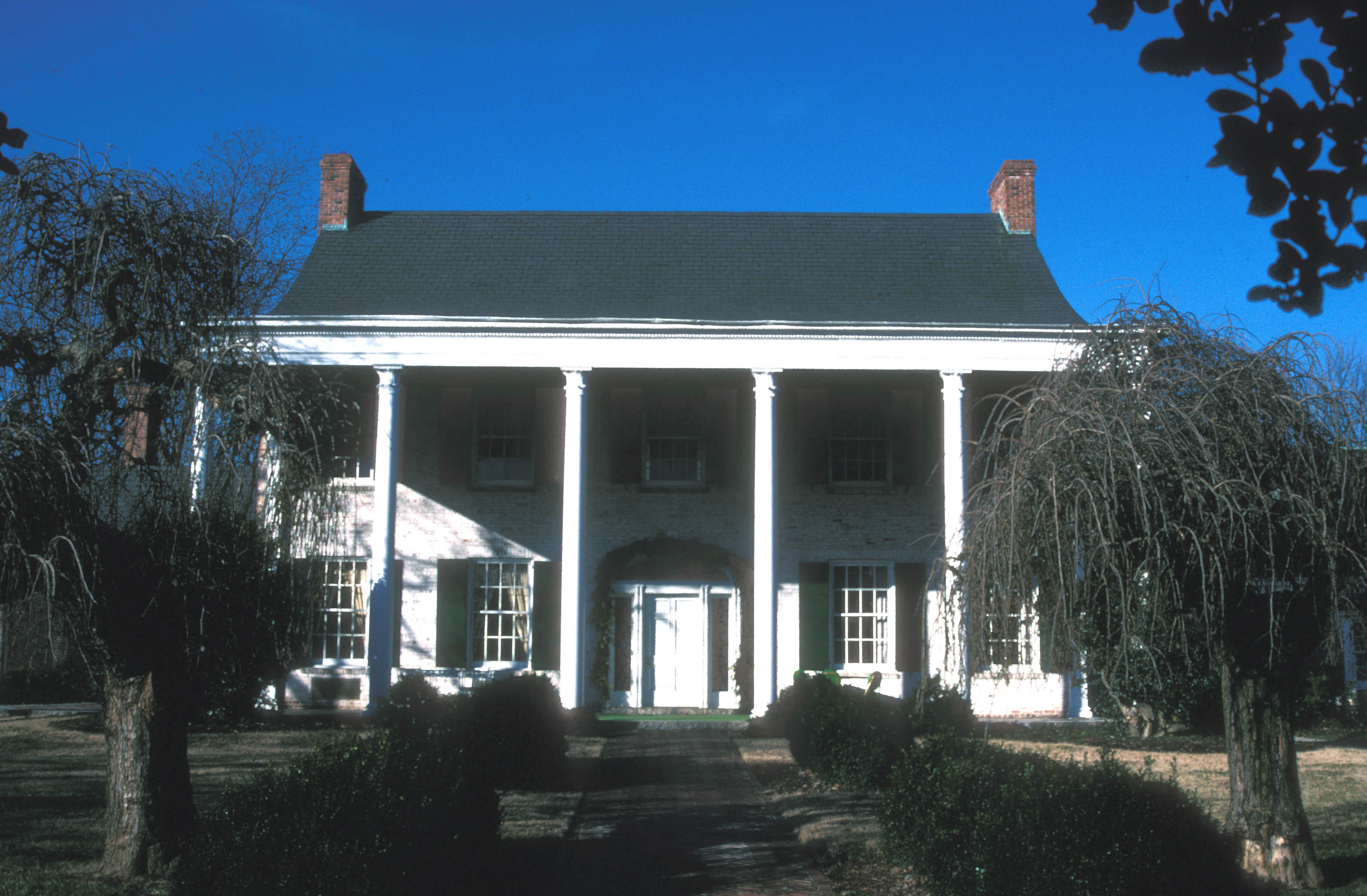 1930 REBUILDING OF A 1908 HOME WHICH WAS DESTROYED BY FIRE. OWNED BY CHARLES PENN, VICE PRESIDENT OF AMERICAN TOBACCO COMNPANY.